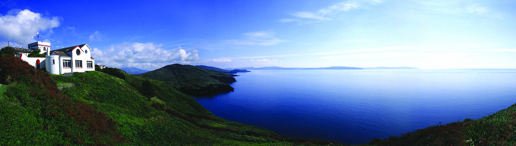 Dzogchen Beara Centre House